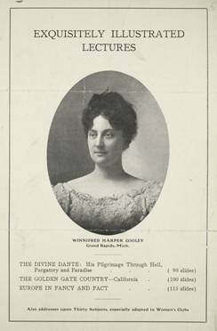 Promotional brochure for Winnifred Harper Cooley's [ca. 1893] illustrated lecture series.